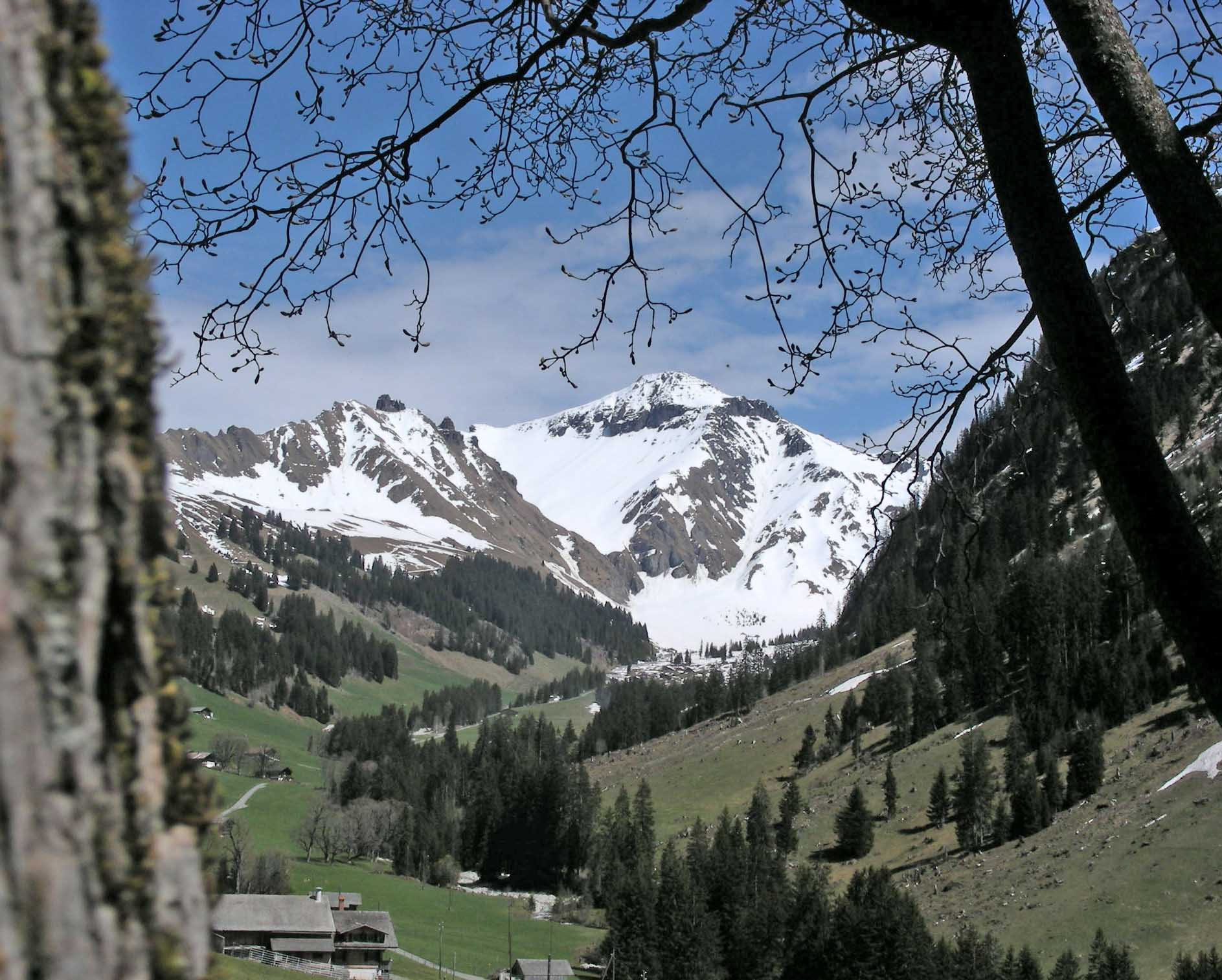 Gsür vom Färmeltal aus.